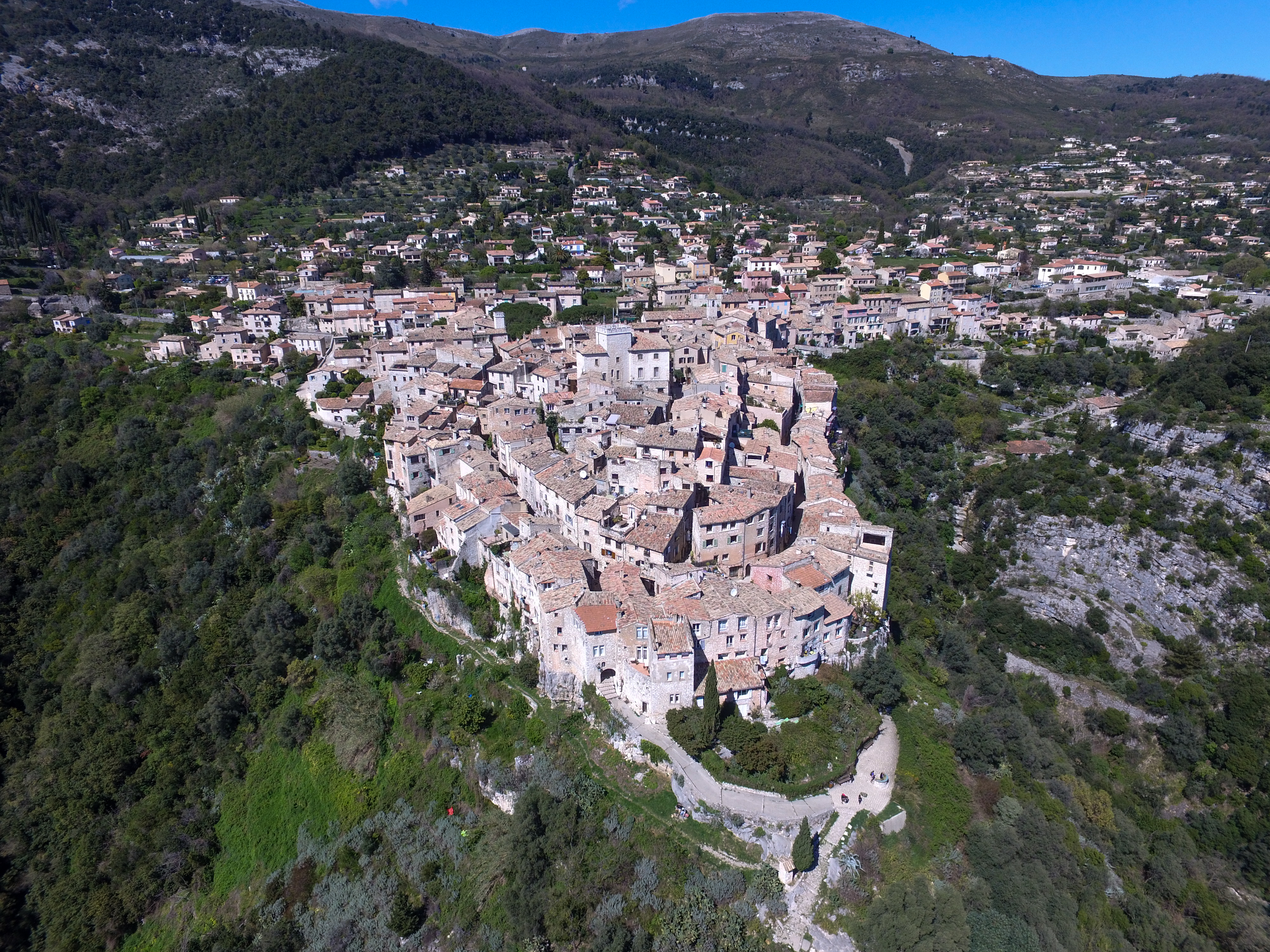 Tourettes-sur-Loup from the air